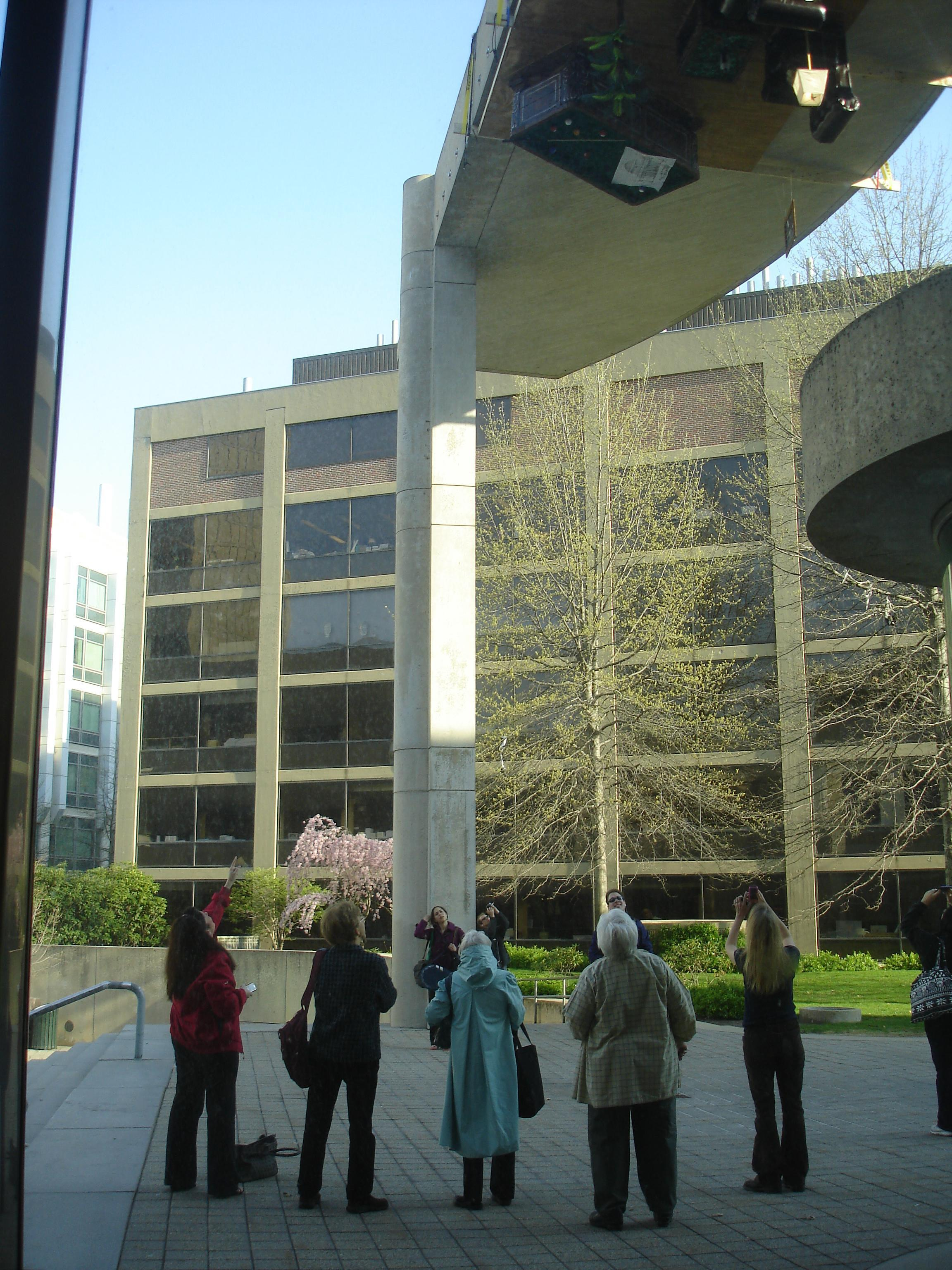 By Andrew Whitacre